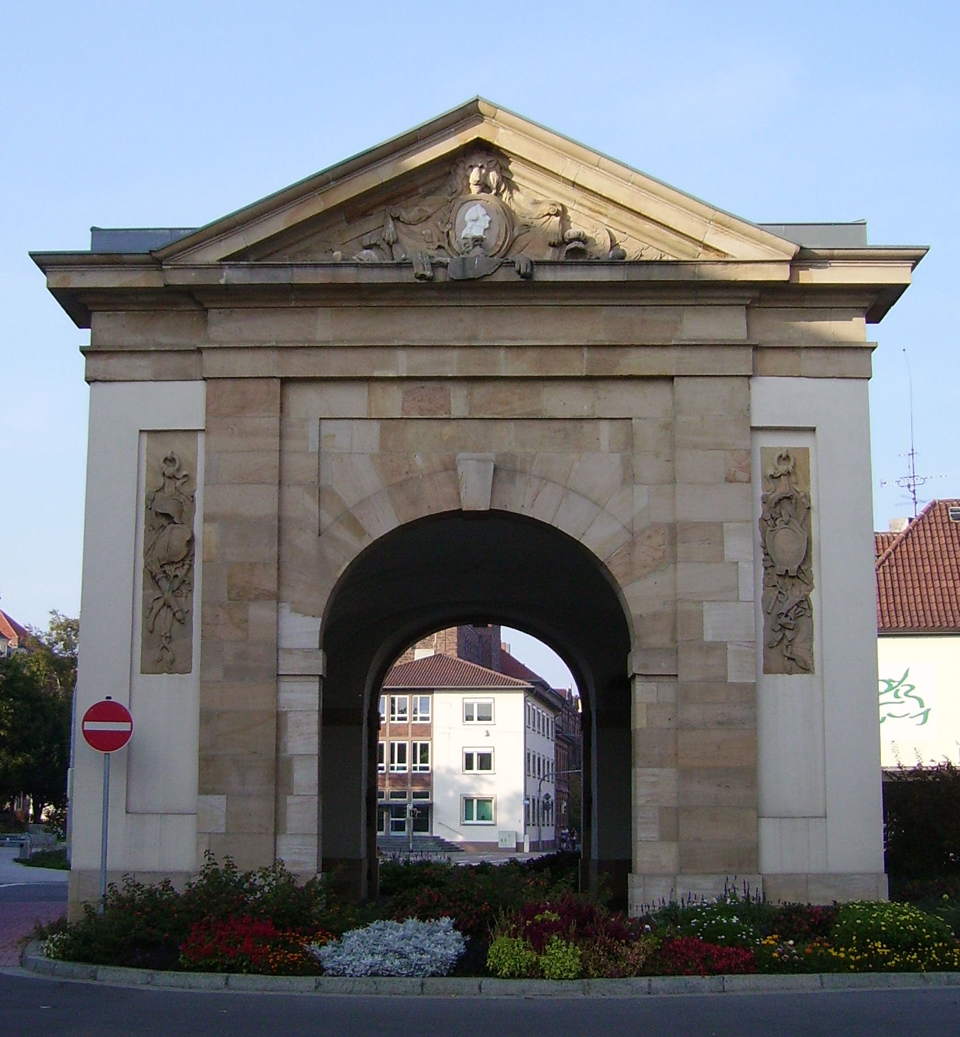 city gate of Frankenthal in Rhineland-Palatinate (Germany)